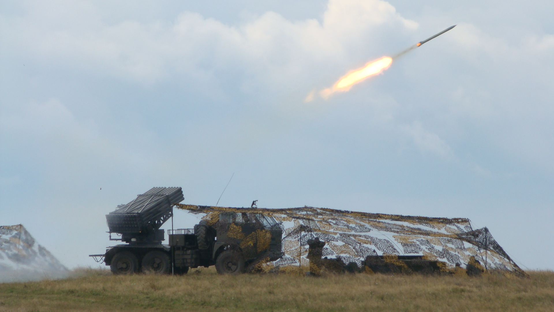 APR-40 from the 69th Mixed Artillery Regiment firing during a military exercise.